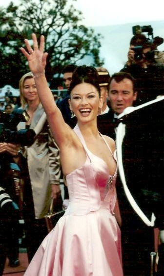 Catherine Zeta-Jones at the Cannes film festival